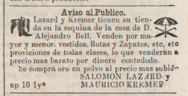 Ad for Lazard and Kremer in the Los Angeles Daily Star 1853-06-18